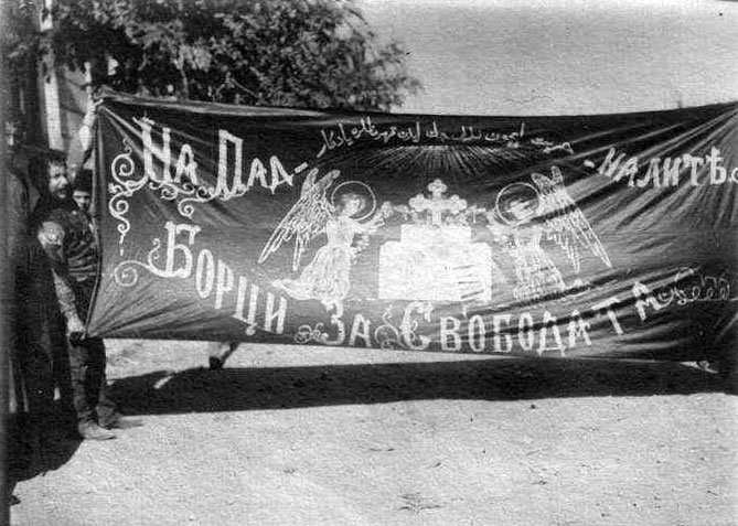 Bulgarian flag of IMARO during the Young turks revolution